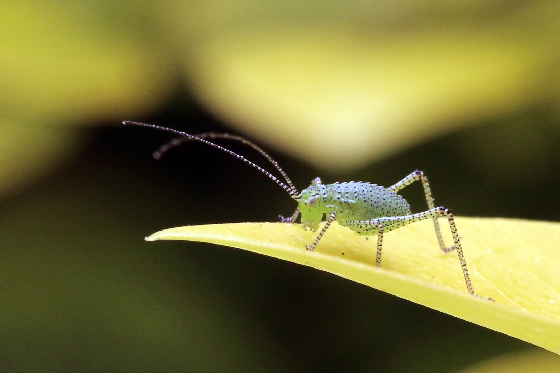 Speckled bush-cricket (Leptophyes punctatissima) nymph